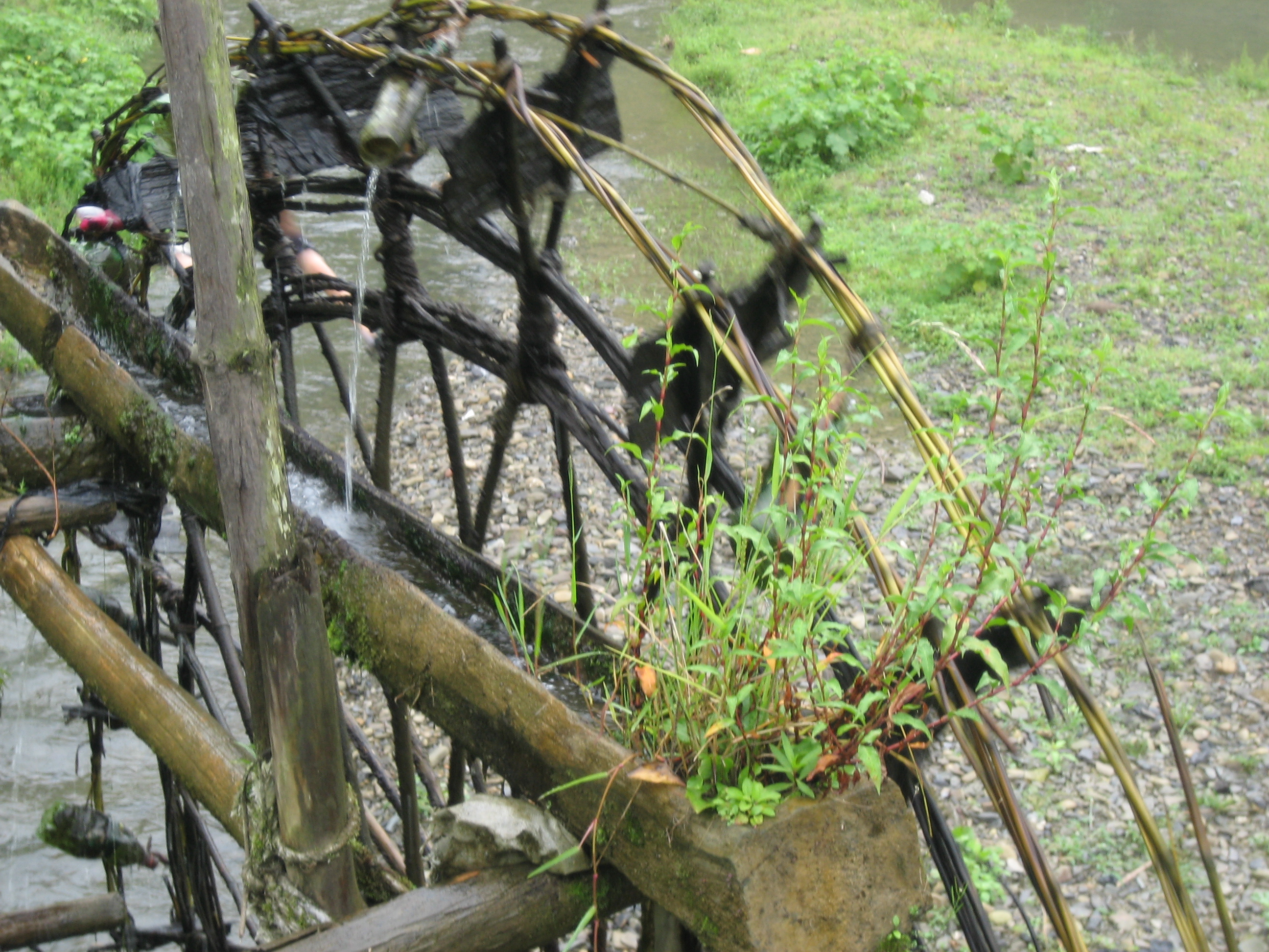 Traditional Miao irrigation system. This watermill along with a complex irrigation system made entirely of wood planks, provides drinking water for the entire village. (Yunan Province)